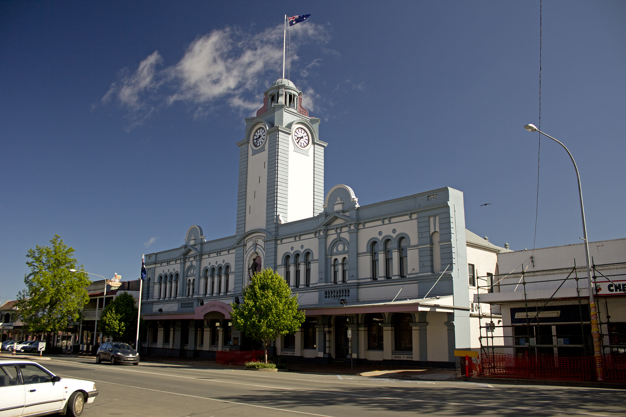 Young Shire Council Chambers located on Boorowa Street in Young New South Wales.